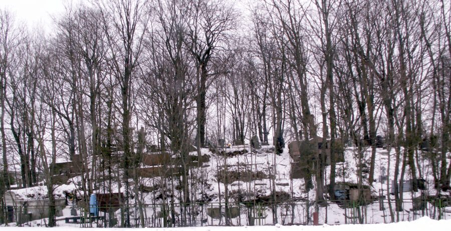 Old cemetery in Šiauliai, Lithuania